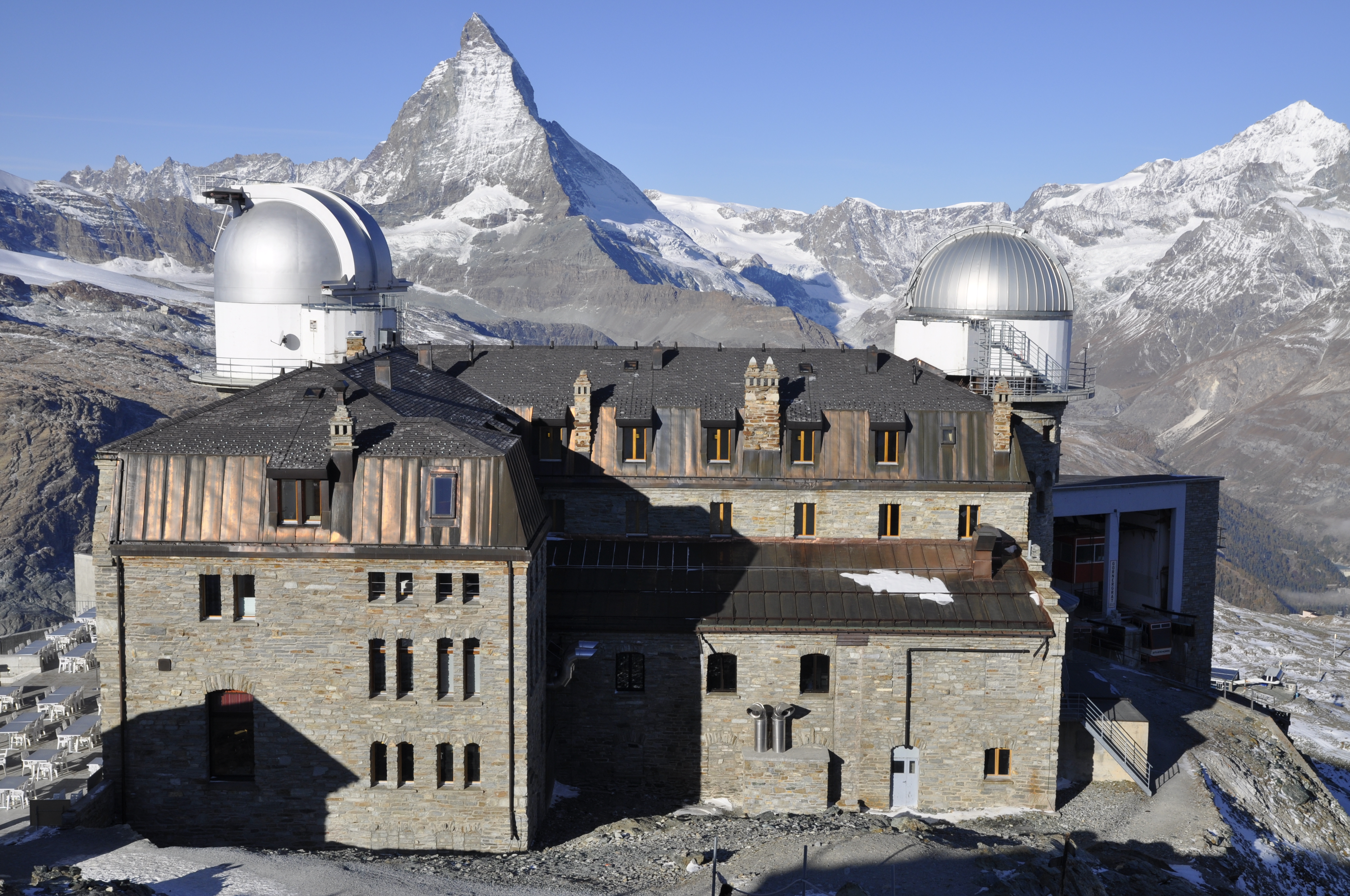 The Gornergrat is a ridge near the Gorner Glacier near Zermatt. The Kulm hotel at 3,089 m hosts the Kölner Observatorium für SubMillimeter Astronomie and the Gornergrat Infrared Telescope.